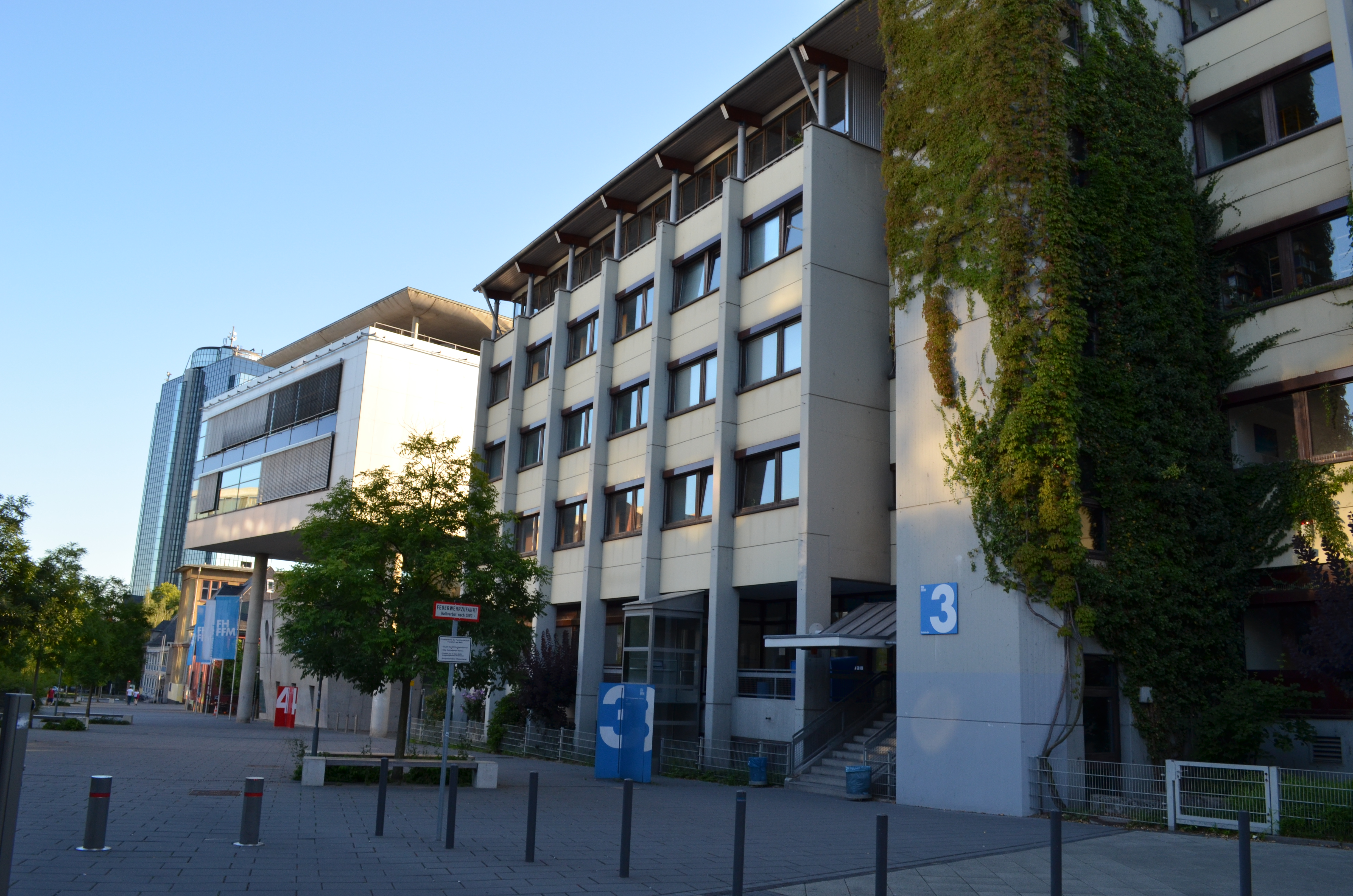 Fachhochschule Frankfurt am Main (FH FFM) - University of Applied Sciences: Building 3, the university library. On the left side is a part of Building 4, in the background the BCN-Tower.